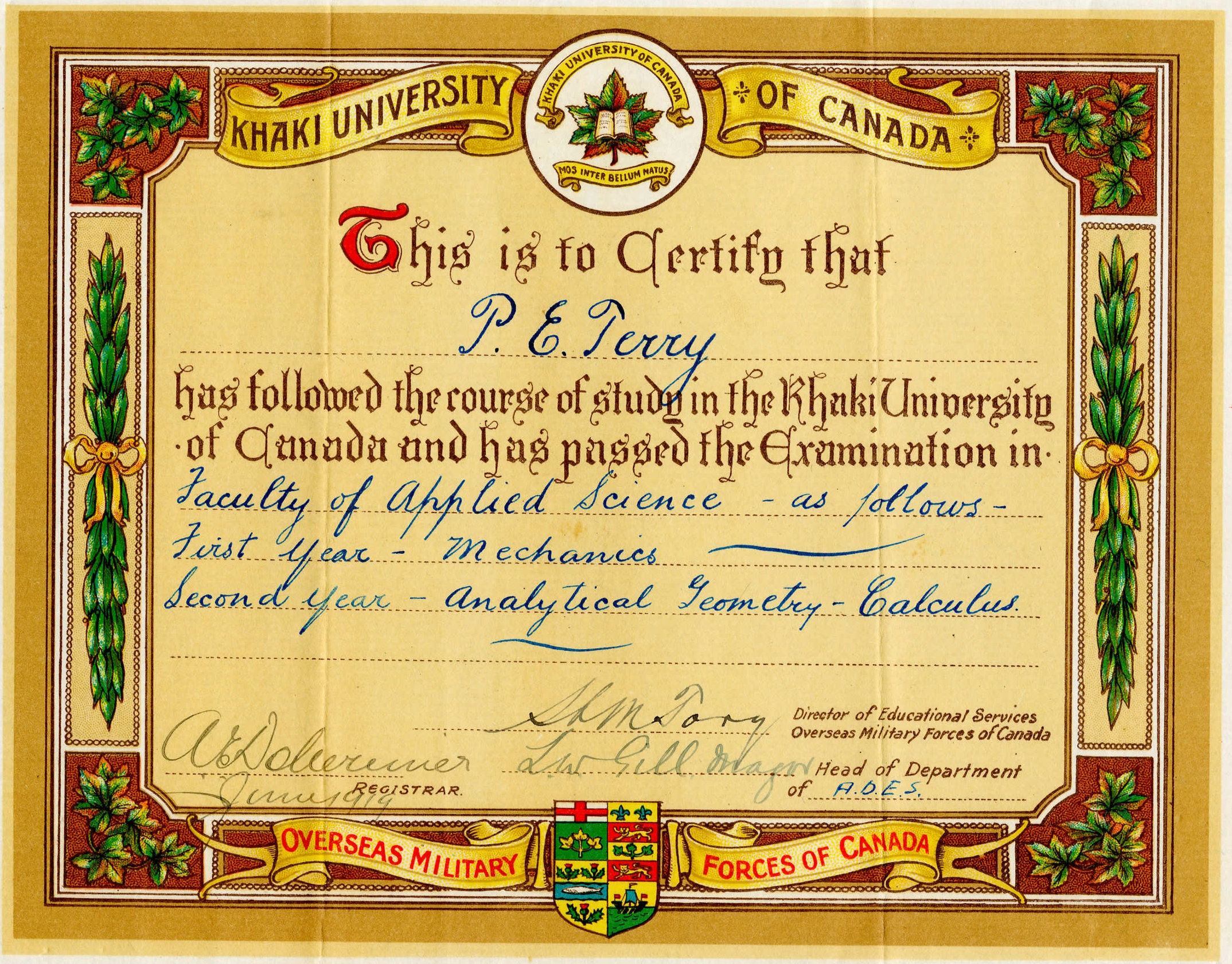 Khaki University system from 1917 to the 1919. Most took primary, elementary, or high school courses, but several hundred were accepted into universities such as Oxford, London, and Edinburgh. Henry Marshall Tory, the president of the University of Alberta, organized the program; his name is signed at the bottom of this certificate.